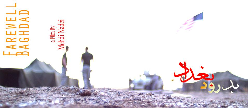 Poster of Farewell Baghdad, Iran's submission to 83rd Academy Awards